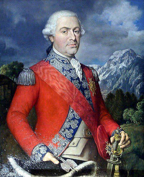 Karl Josef von Bachmann, commander of the Swiss Guards who defended the Tuileries Palace on the 10th August 1792